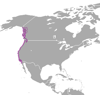 Derived from description.